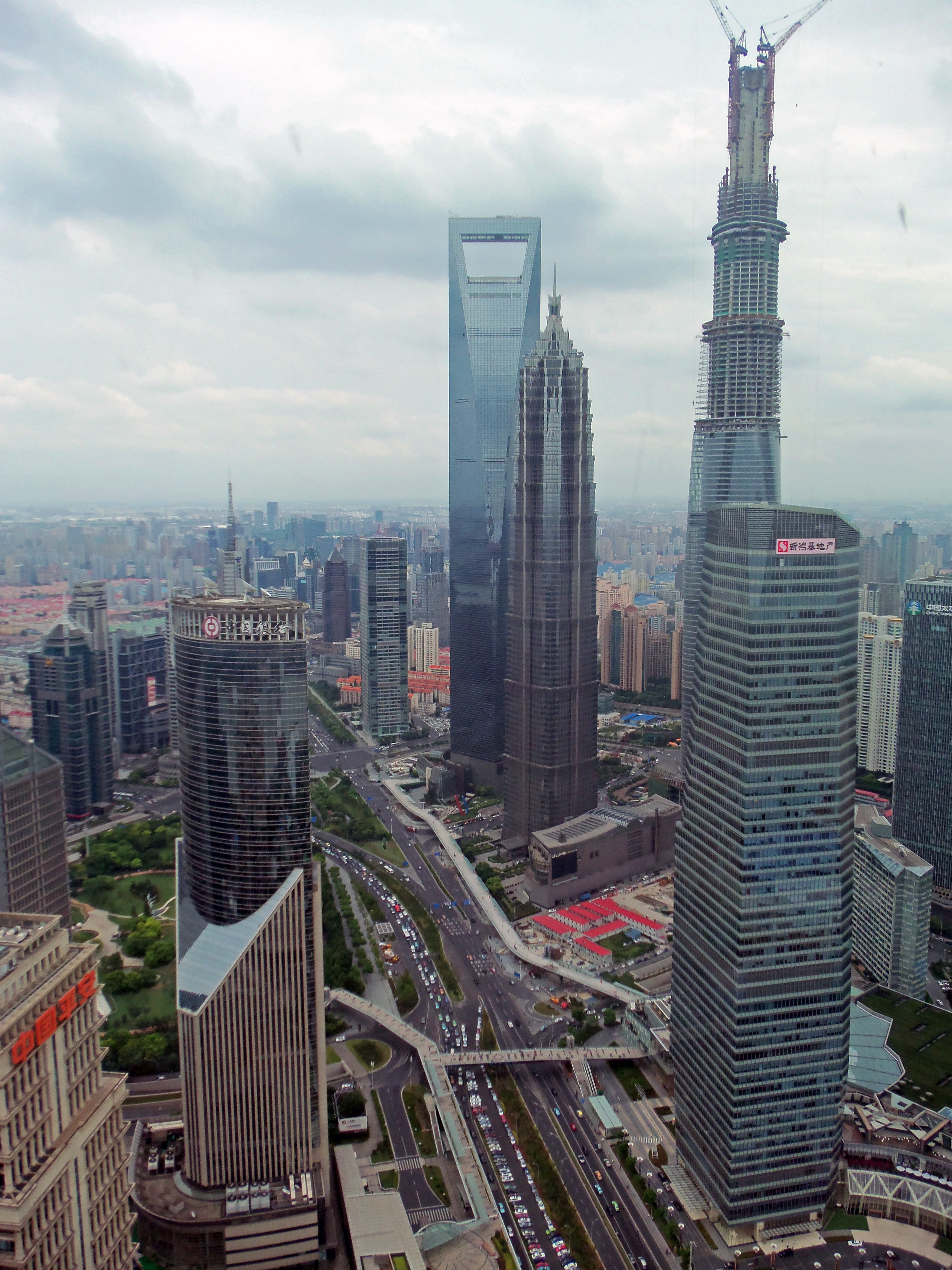 Shanghai World Financial Center, Jin Mao Toewr and Shanghai Tower (under construction) from Oriental Pearl Tower observation deck